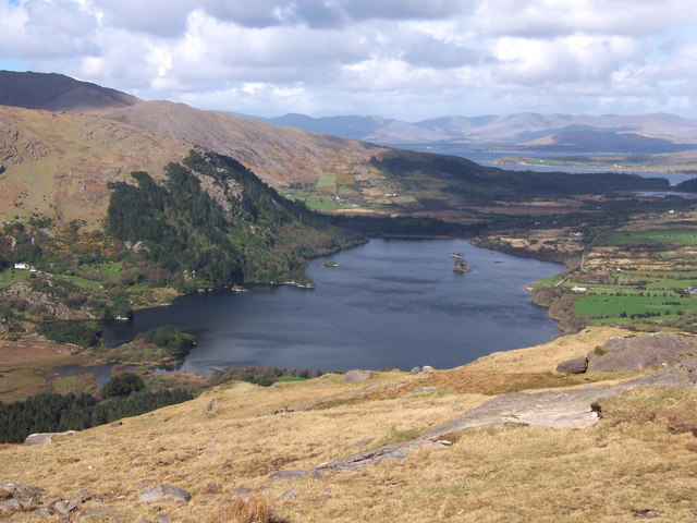 Glanmore Lake View of Glanmore lake, from the Healy Pass viewpoint on the R 574 Bere peninsula.